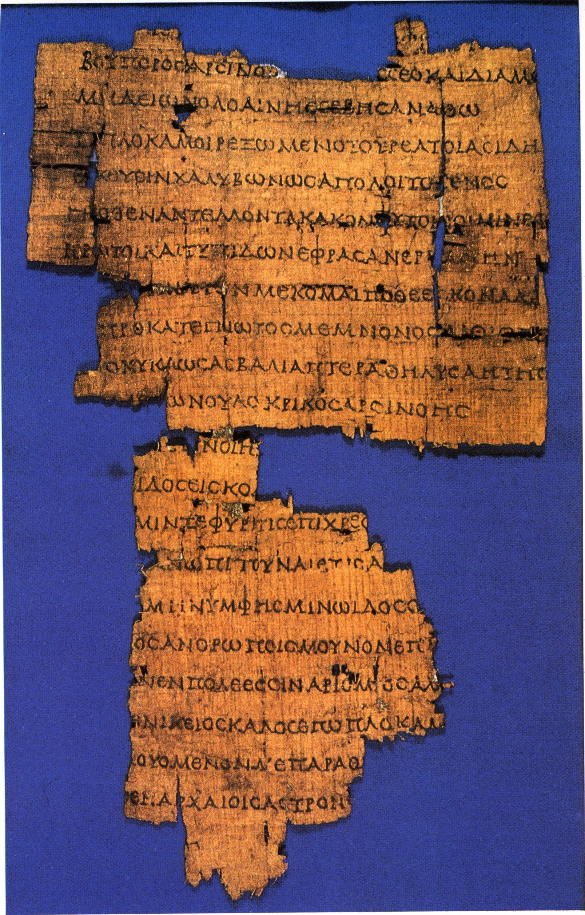 Callimachus, Coma Berenices. Papyrus fragment. Florence, Biblioteca Medicea Laurenziana, PSI 1092.